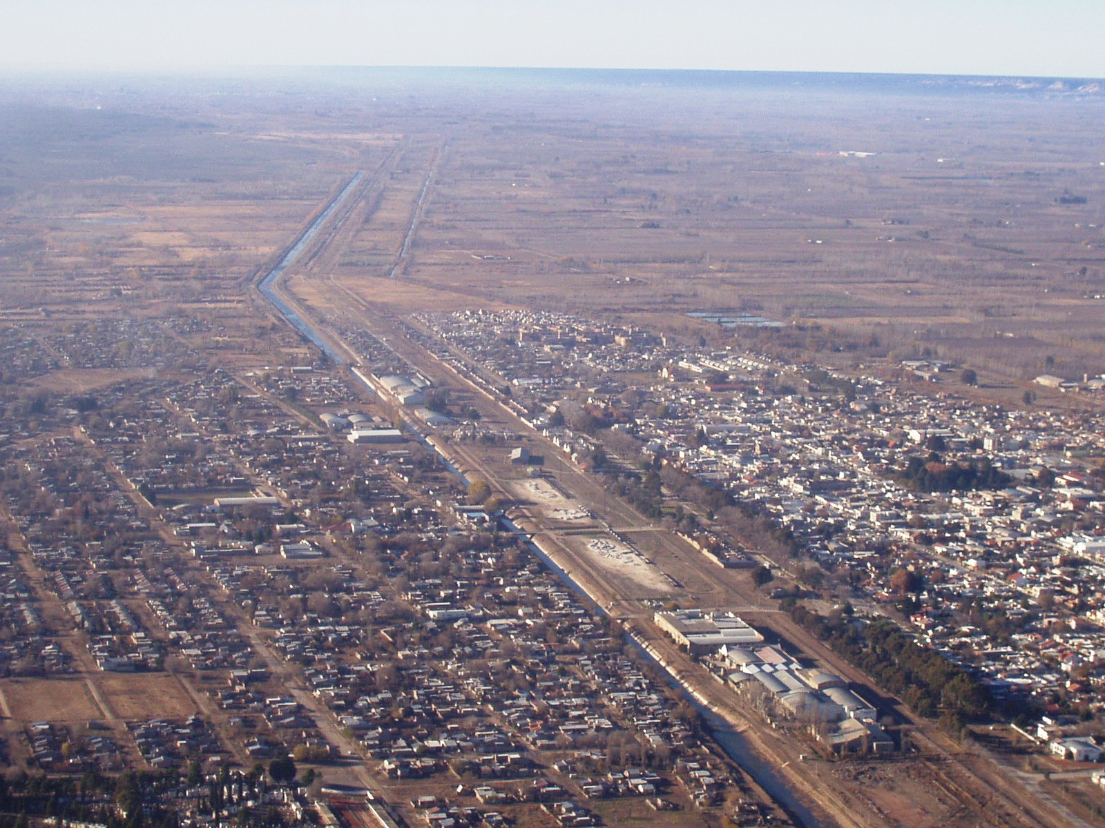 Aerial view of Allen, Río Negro, Argentina